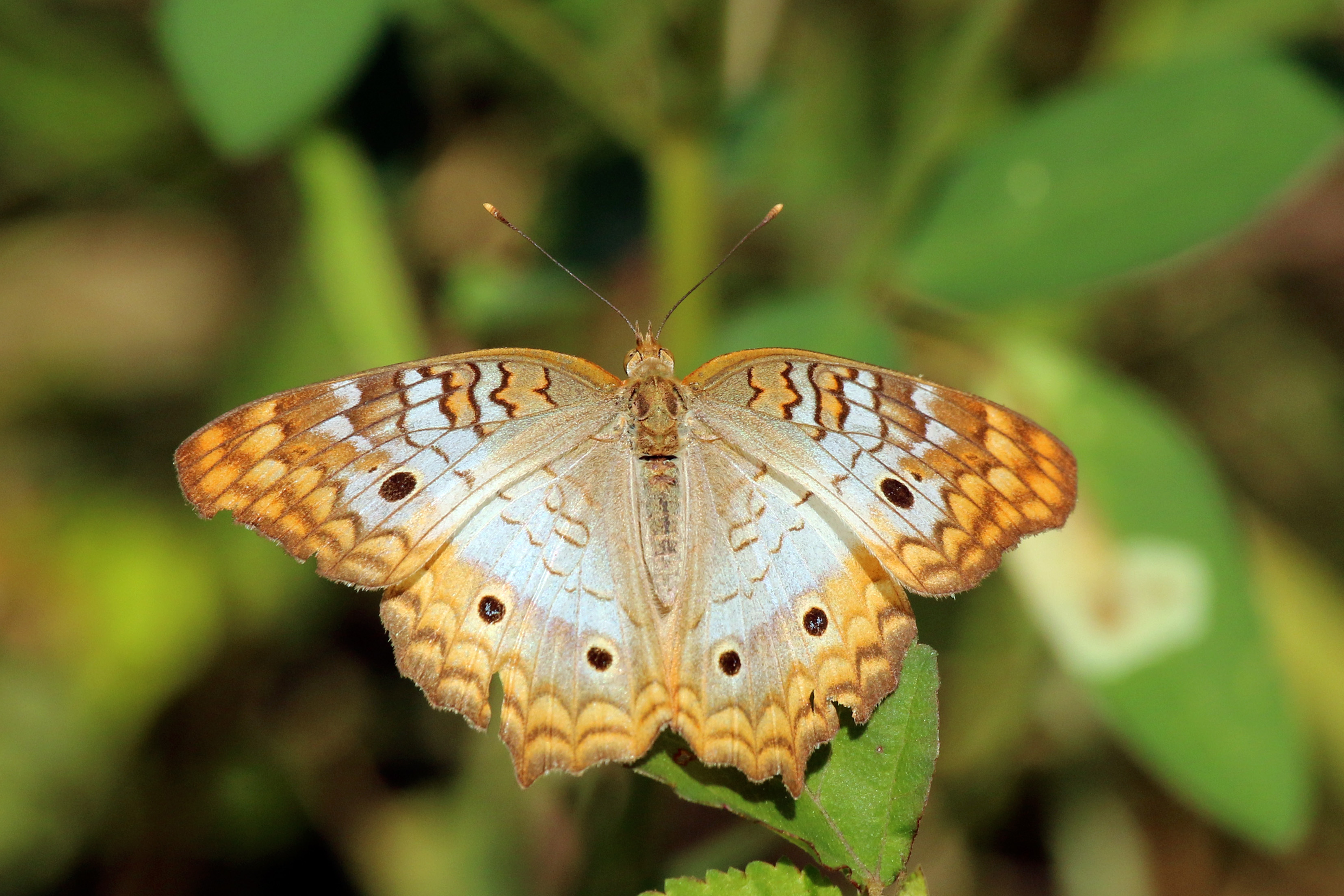 Jamaican white peacock butterfly (Anartia jatrophae jamaicensis) female